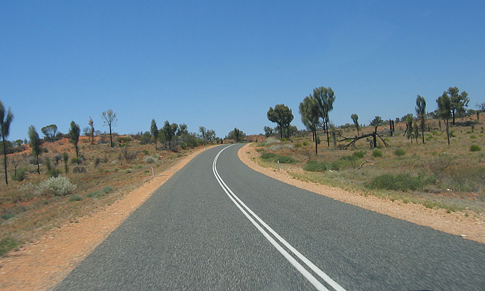 Luritja Road, Northern Territory